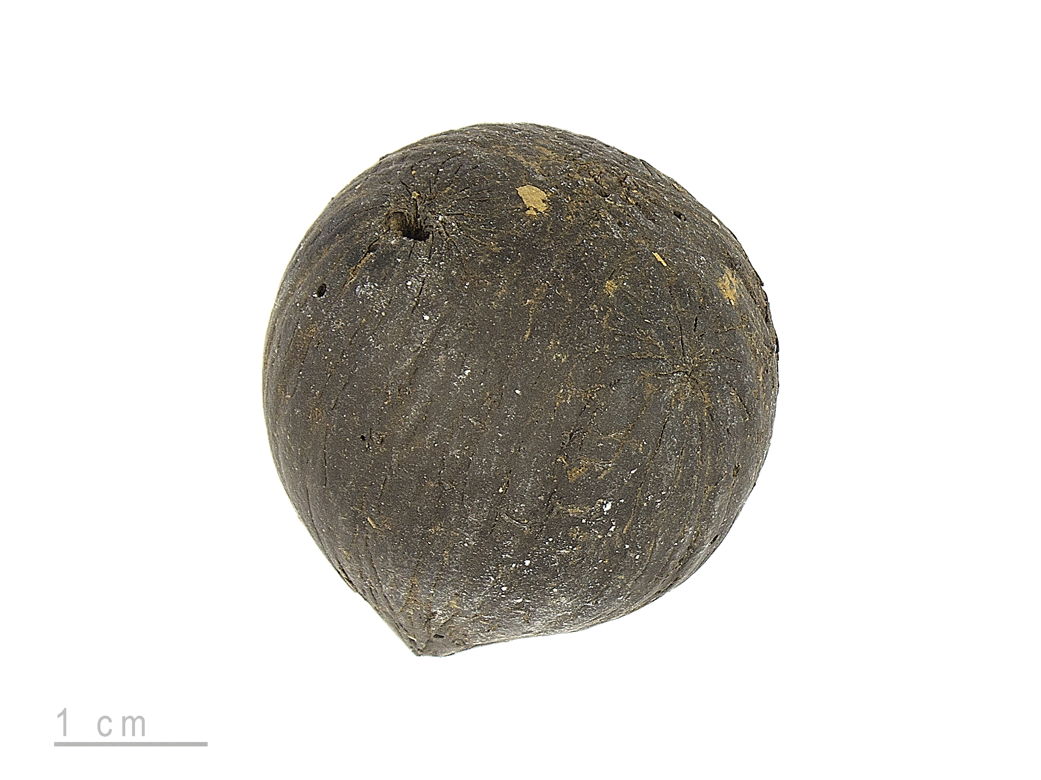 Astrocaryum sciophilum, fruit